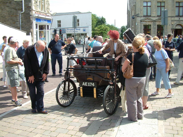 Clevedon - Station Road